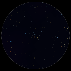 Cr399